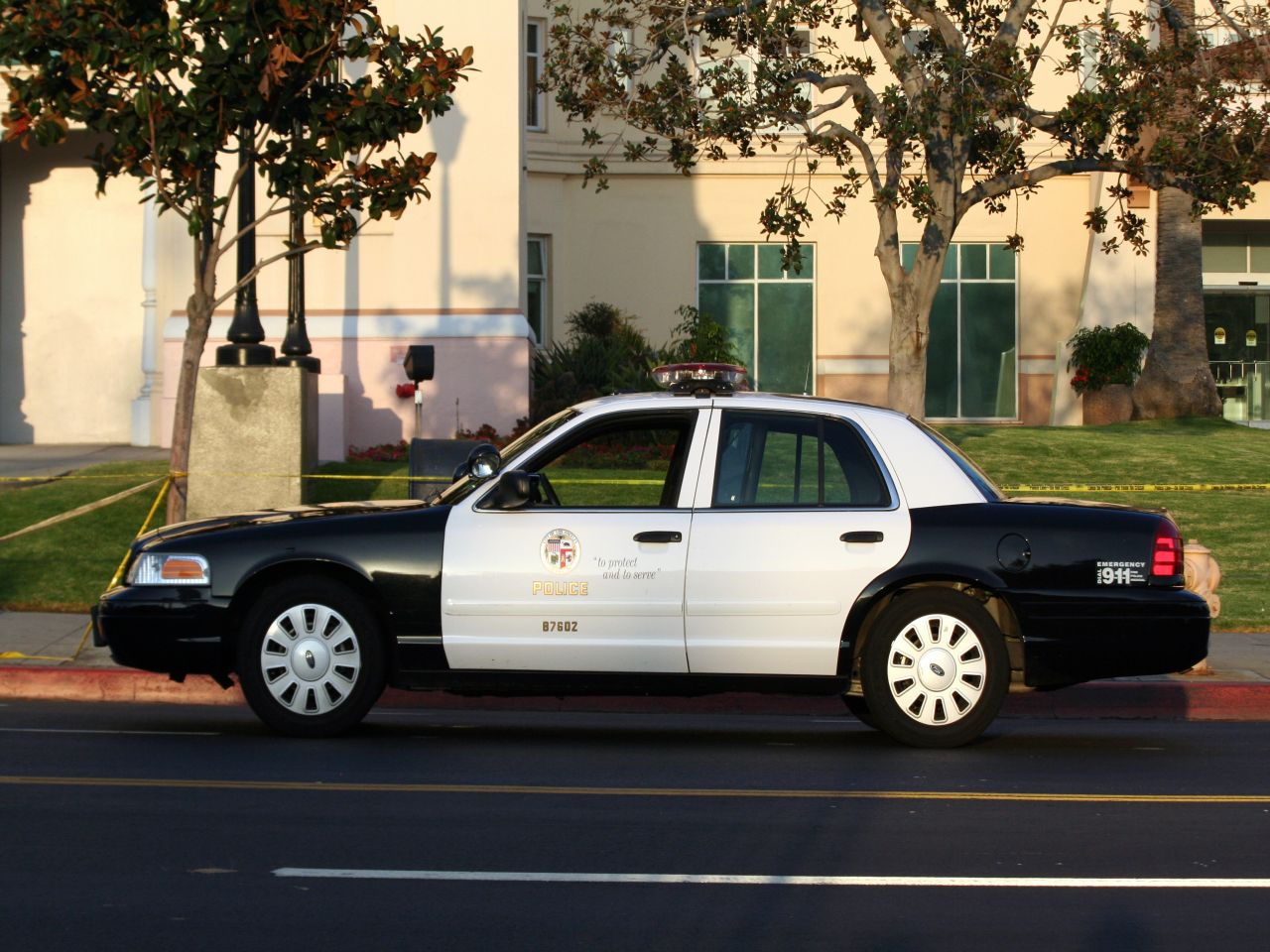 LAPD vehicle at a crime scene in Hollywood.